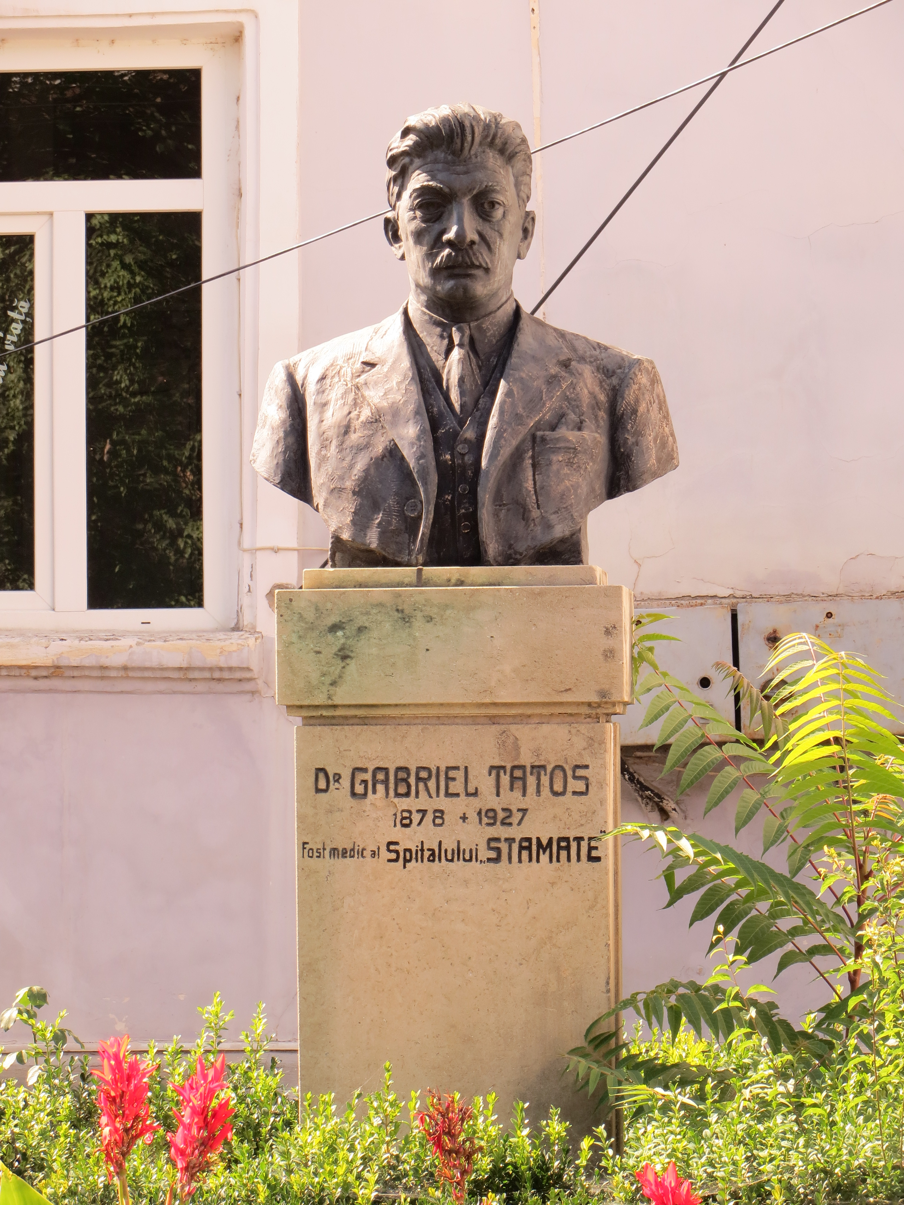 Bust of Doctor Gabriel Tatos, Fălticeni, Suceava County, Romania.